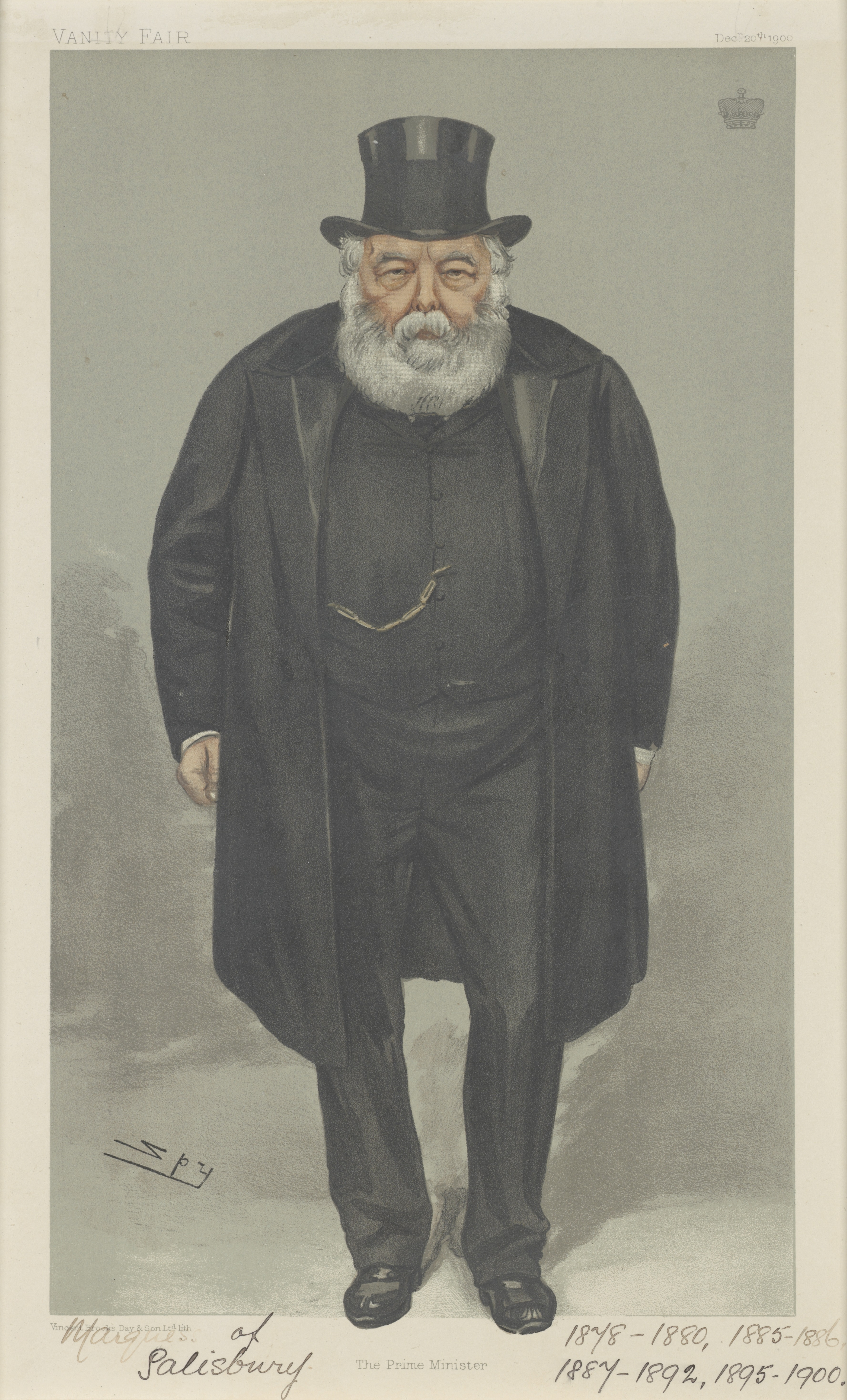 Statesmen No.730: Caricature of The Robert Gascoyne-Cecil, 3rd Marquess of Salisbury. Caption reads: "The Prime Minister"